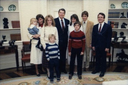 Mike DeWine and Ronald Reagan, with Frances DeWine, Patrick DeWine, Jill DeWine, Becky DeWine, Brian DeWine, and Alice DeWine.